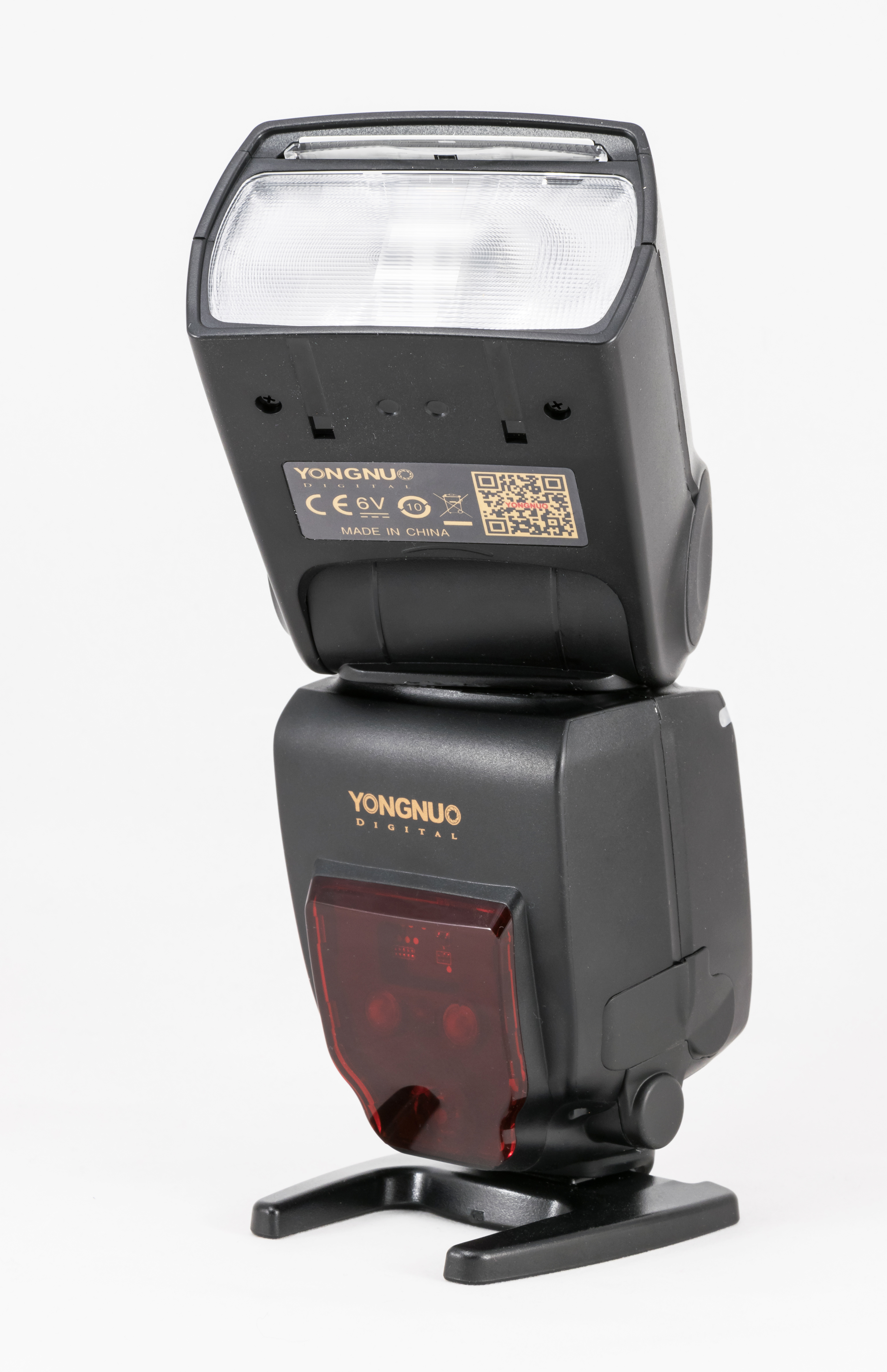 Yongnuo YN685 speedlite